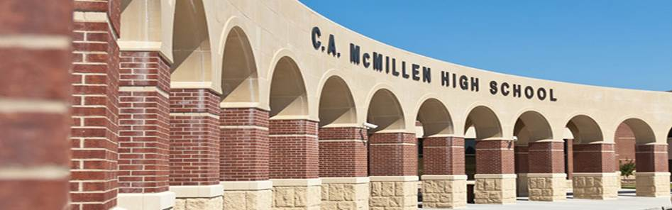 Front of building